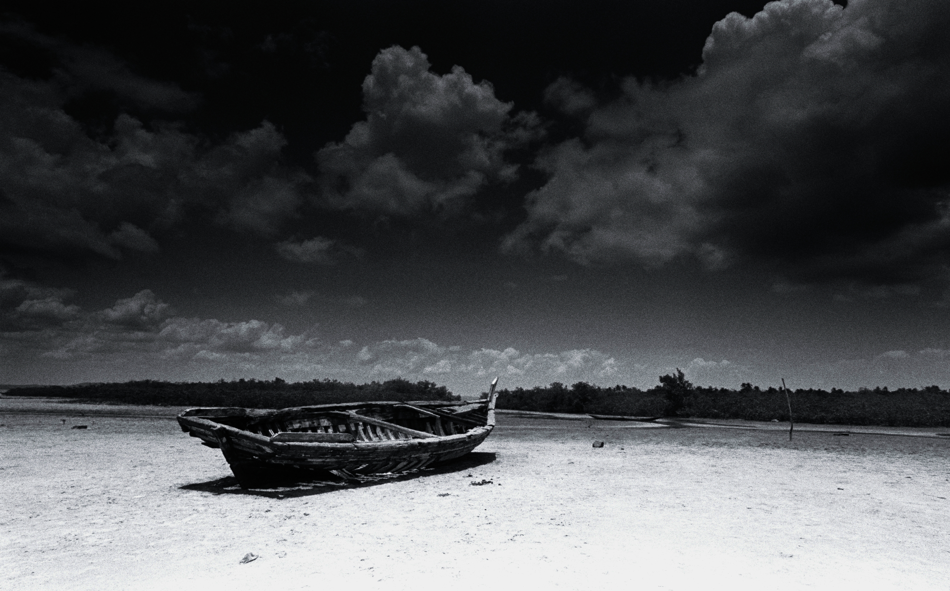 Desertification in Brazil Analog image scanned